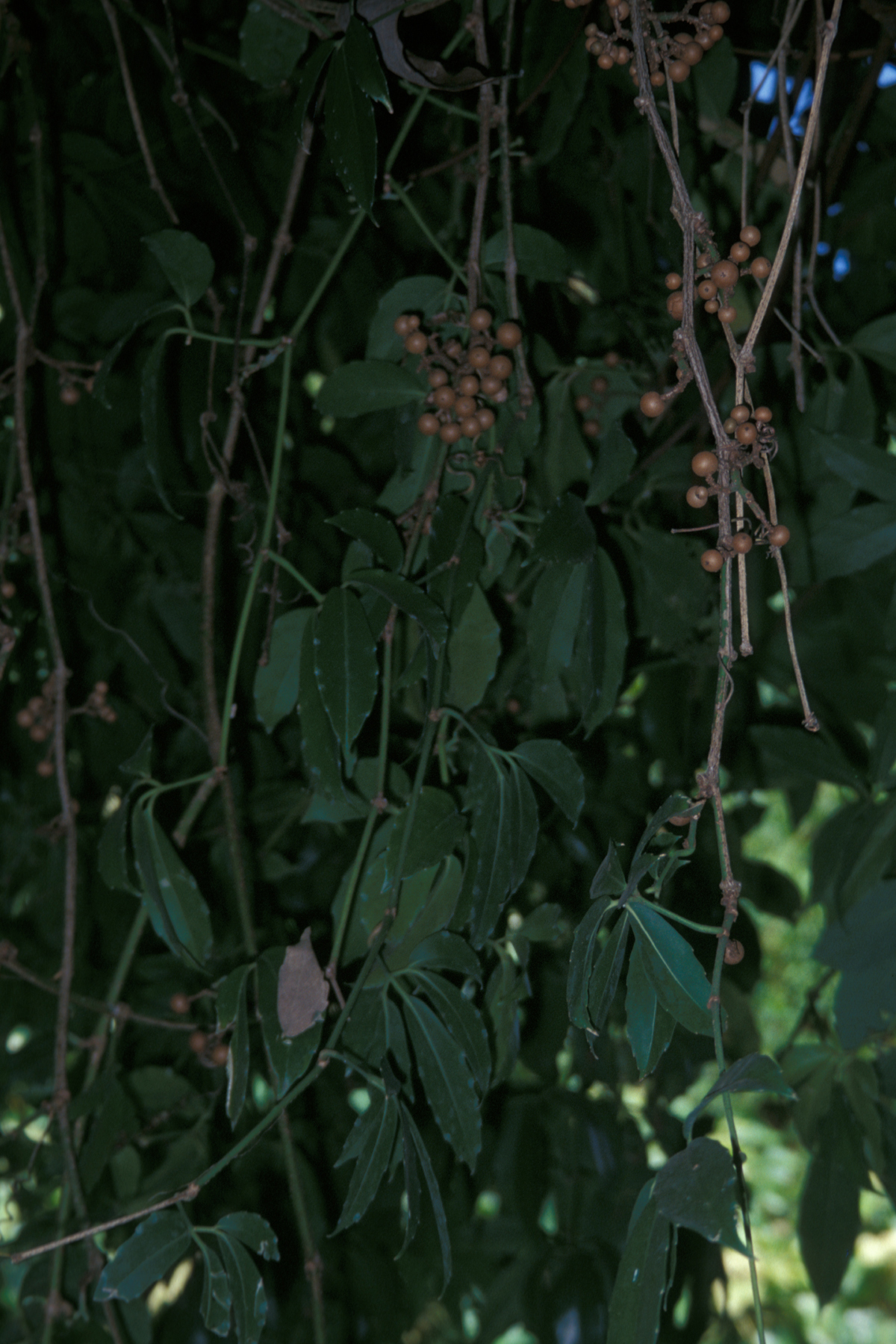 Tetrastigma pubinerve (fruit and leaves). Location: Maui, Honokahau Valley